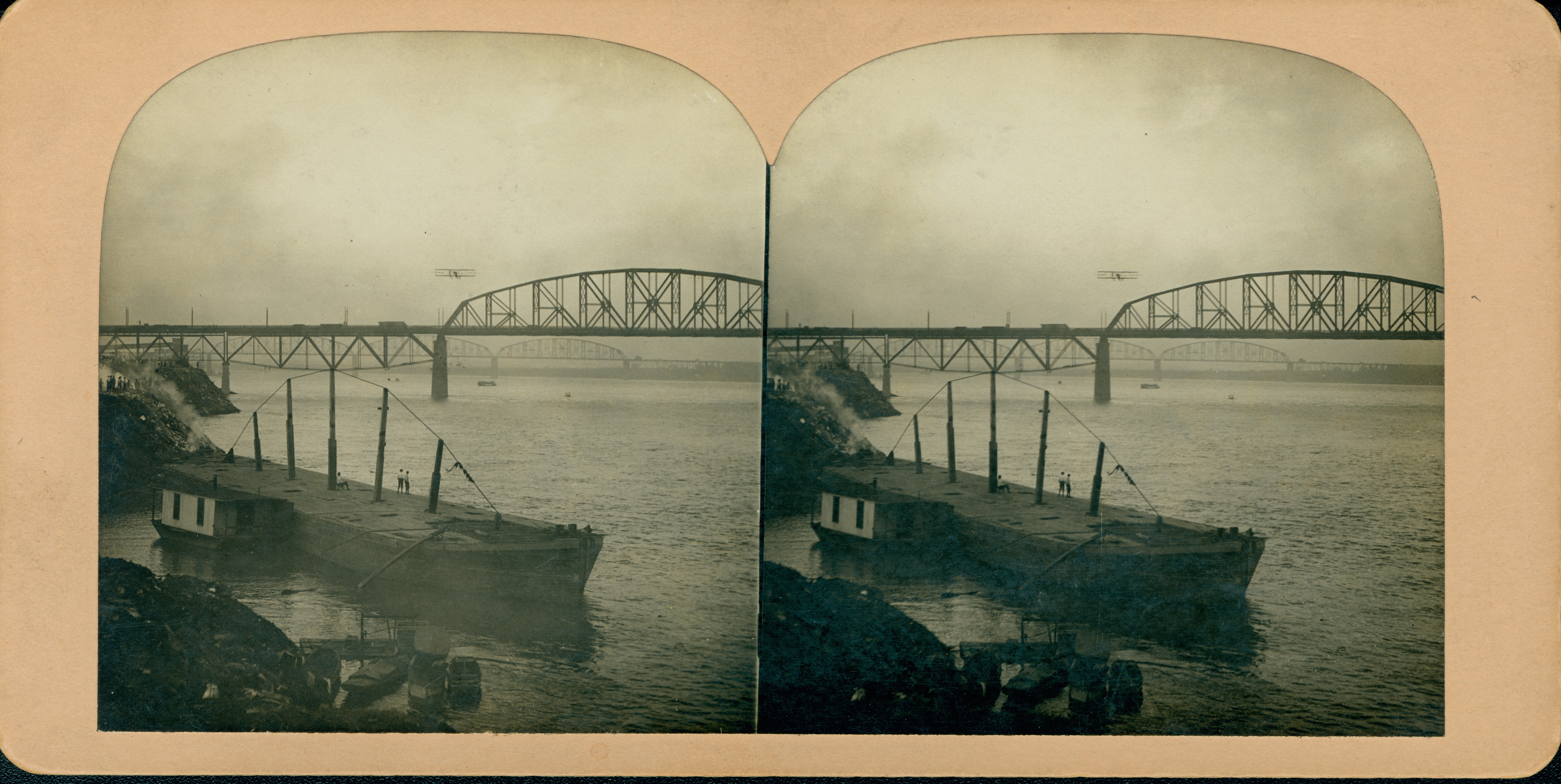 Title: Capt. Thomas Scott Baldwin in flight near the McKinley Bridge. 10 September 1910.